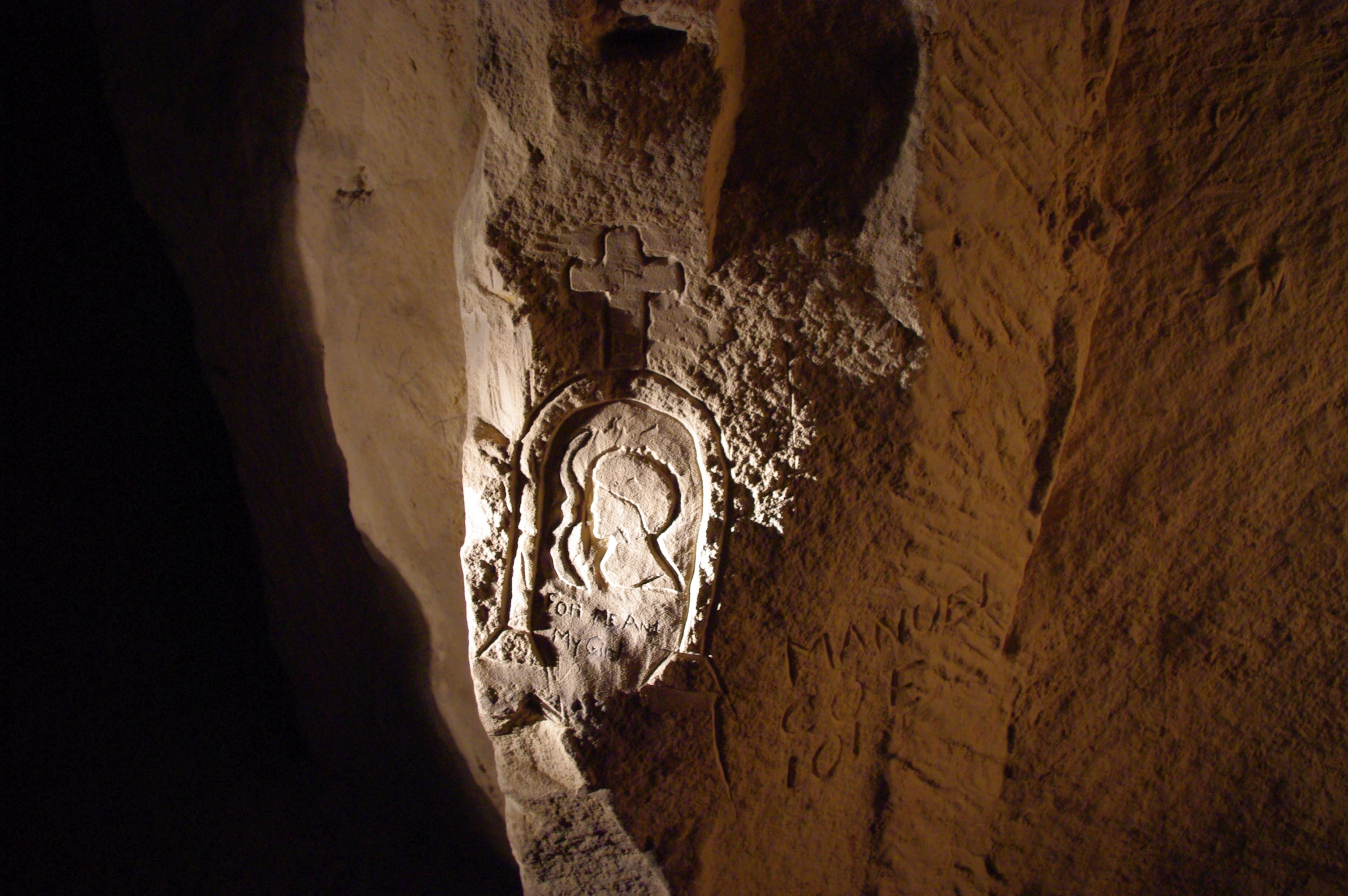 Sculpture in the quarry of Froidmont (Braye en Laonnois), made by an American soldier in 1918